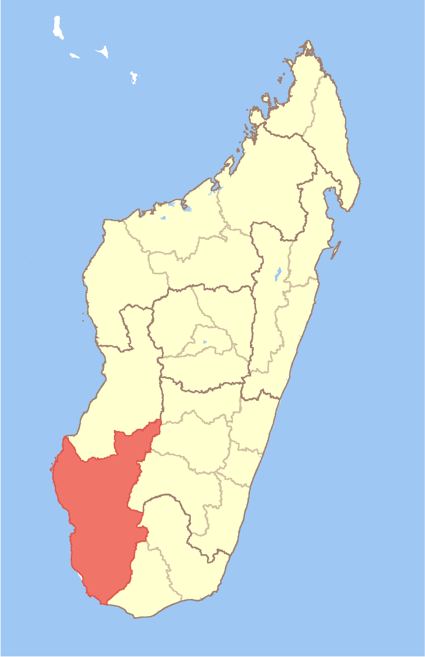 Map of Madagascar with Atsimo Andrefana Region highlighted